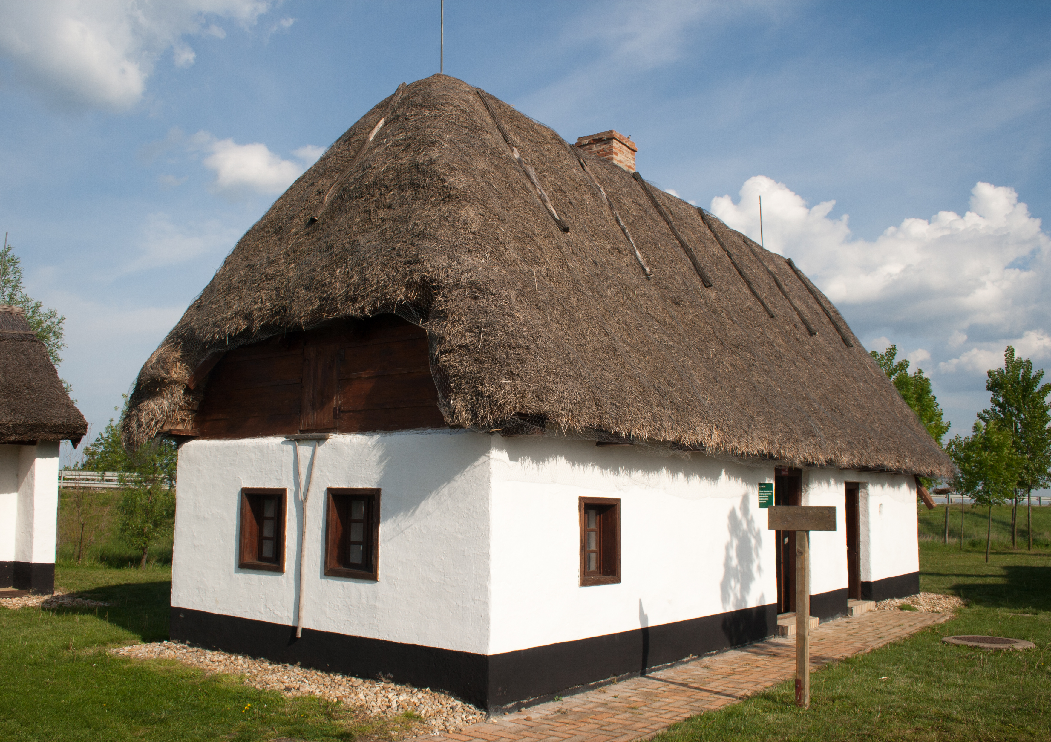 House from Nagyhódos